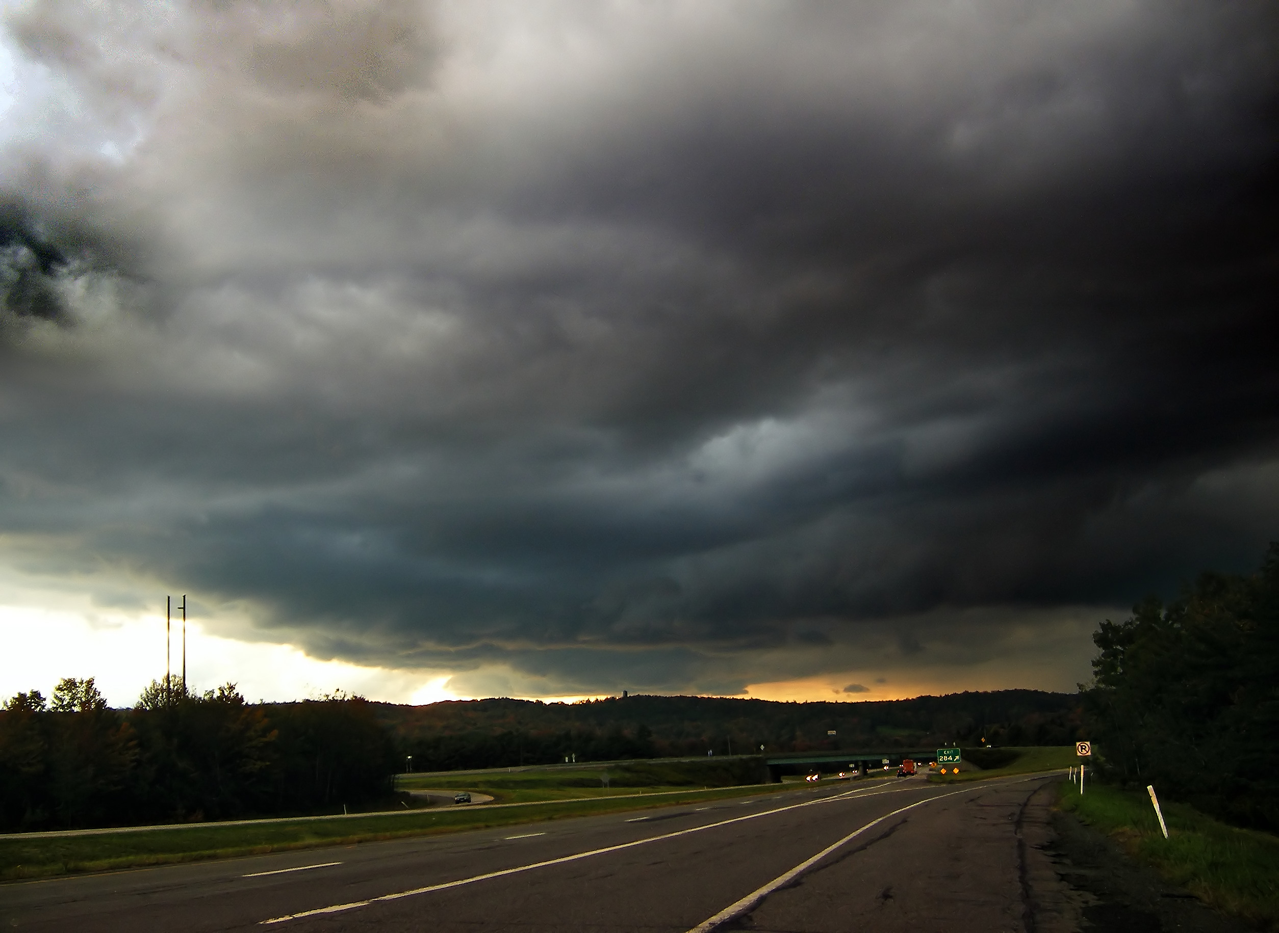 Interstate 80 West, Monroe County–Carbon County line, under gathering storm clouds.